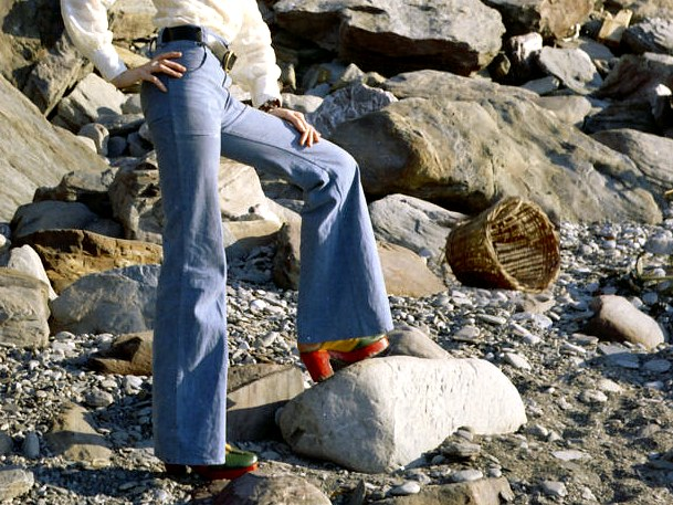 Bell bottom jeans